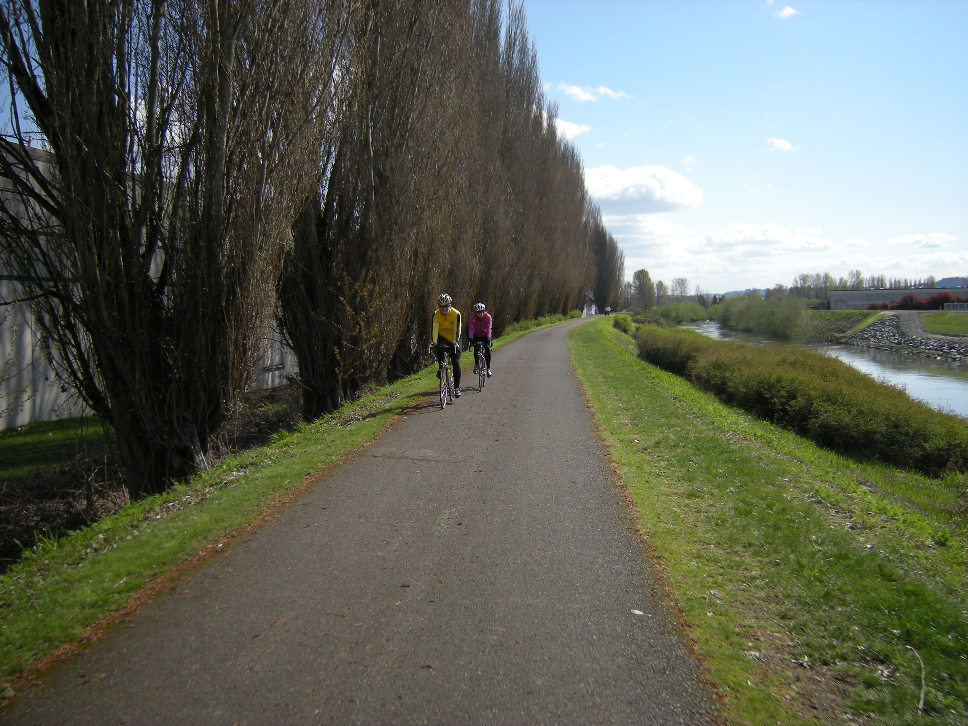 Bicycles approaching on the Green River Trail, along the Desimone Levee, Tukwila, Washington. Looking upriver on the right bank.